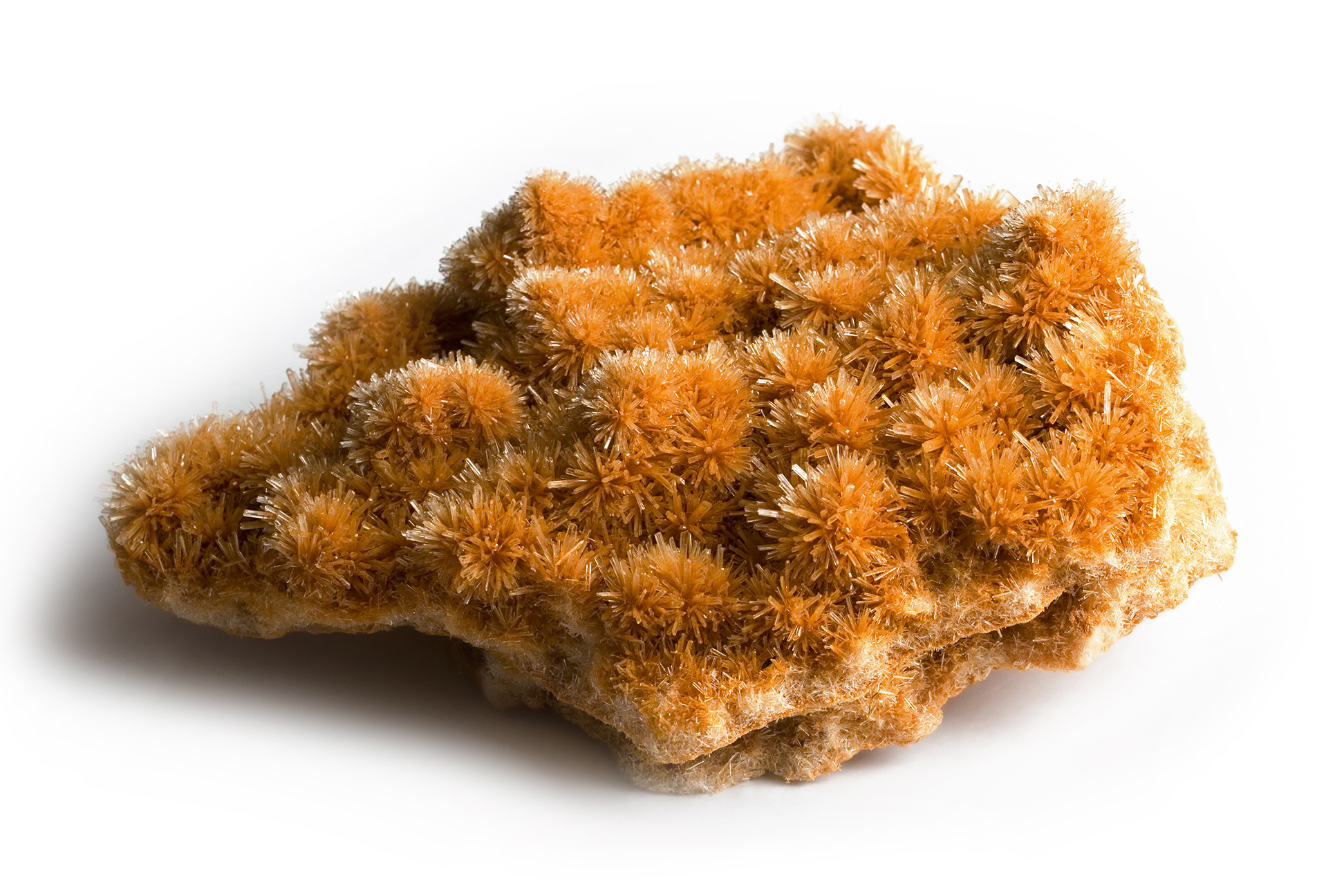 Gypsum var. selenite from Andamooka Ranges - Lake Torrens area, South Australia.